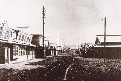 Honcho in Chinnai(Krasnogorsk Красногорск)